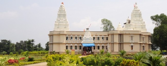 Bhawani Aai Waghjai Temple, Terav, Chiplun (Maharastra)